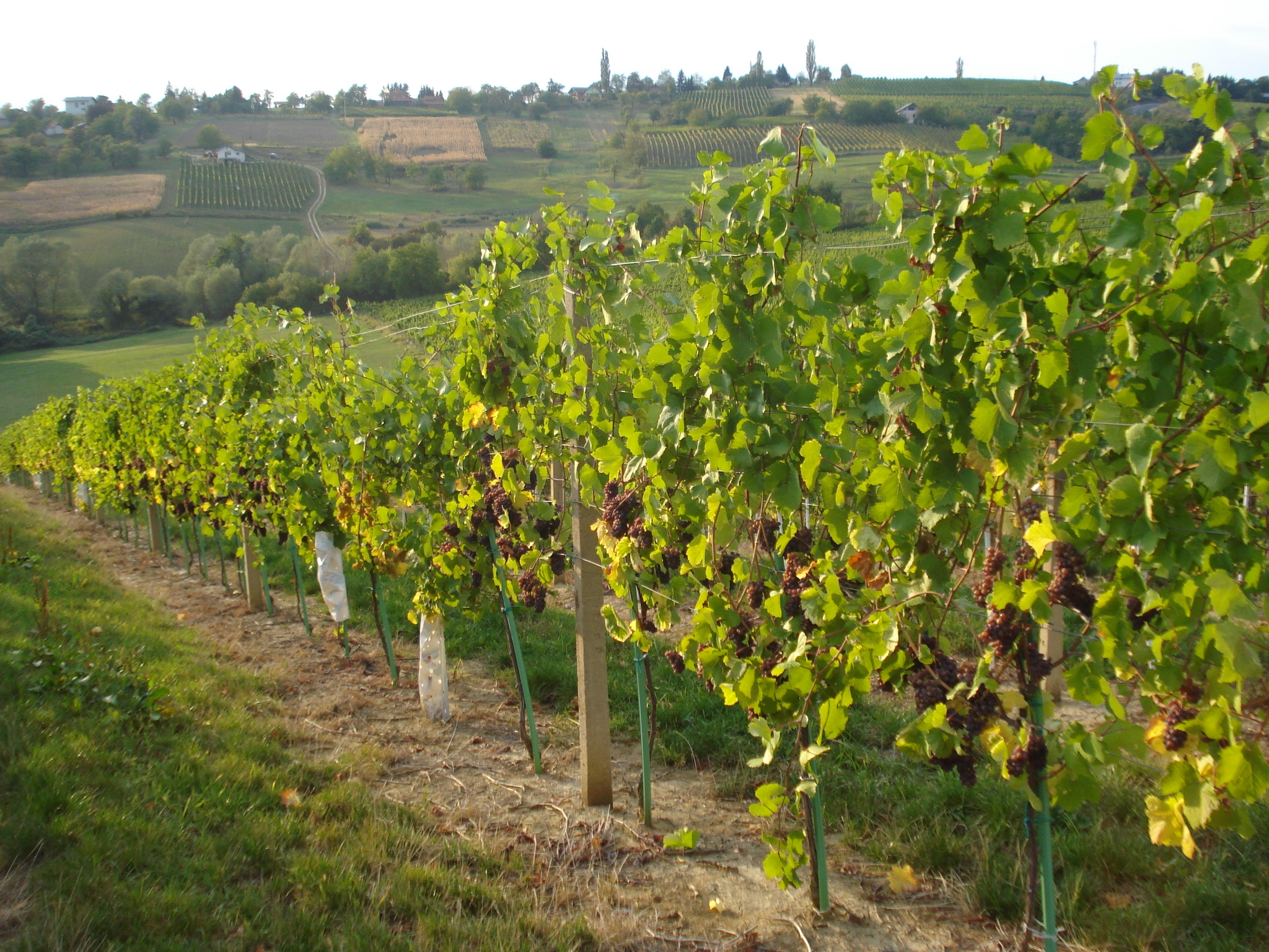 "Međimurske gorice" - black grapes vineyard at Železna Gora village in Međimurje wine subregion, northern Croatia